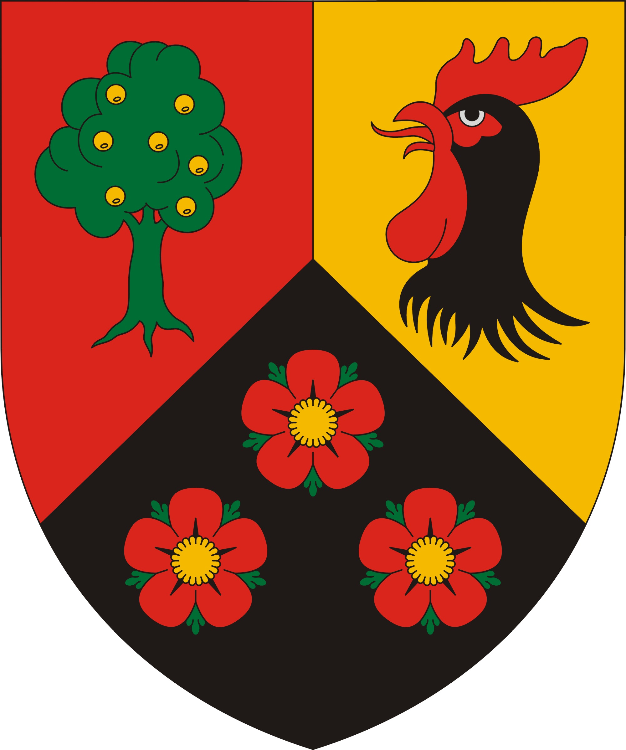 Coat of arms of Csurgónagymarton, Hungary